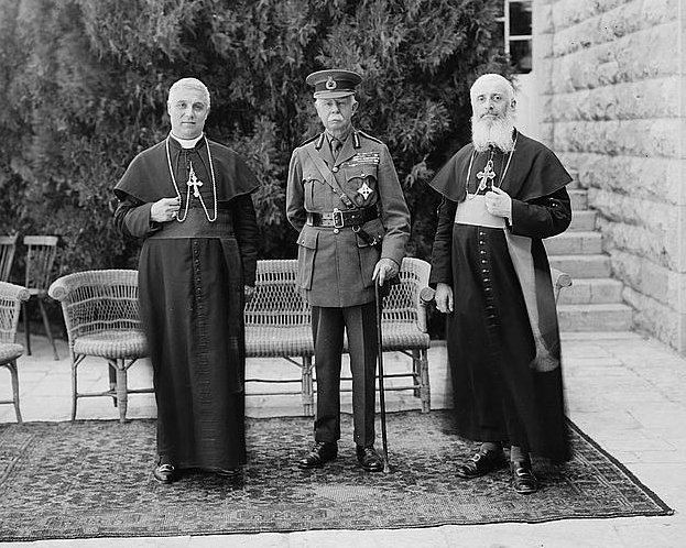 Left to right: Abp. [i.e., archbishop] Lessio Ascalesi of Naples, Lord Plumer, Latin Patriarch Luigi Barlassina. See also File:Lord Plumer with archbishop of Naples & Latin Patriarch Aug 11, 1926..jpg